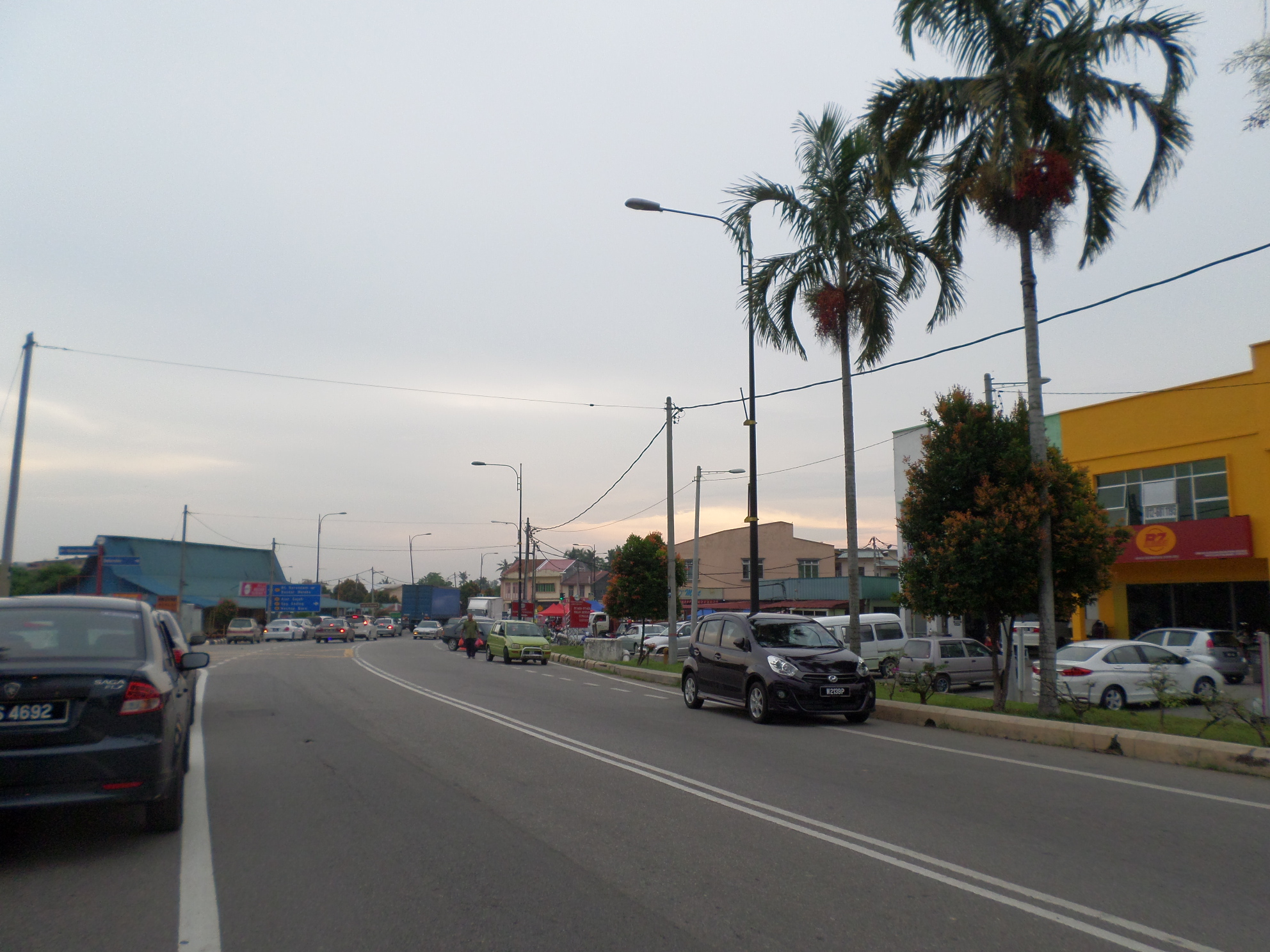 Durian Tunggal, Alor Gajah, Melaka, MalaysiaBahasa Melayu: Durian Tunggal, Alor Gajah, Melaka, Malaysia